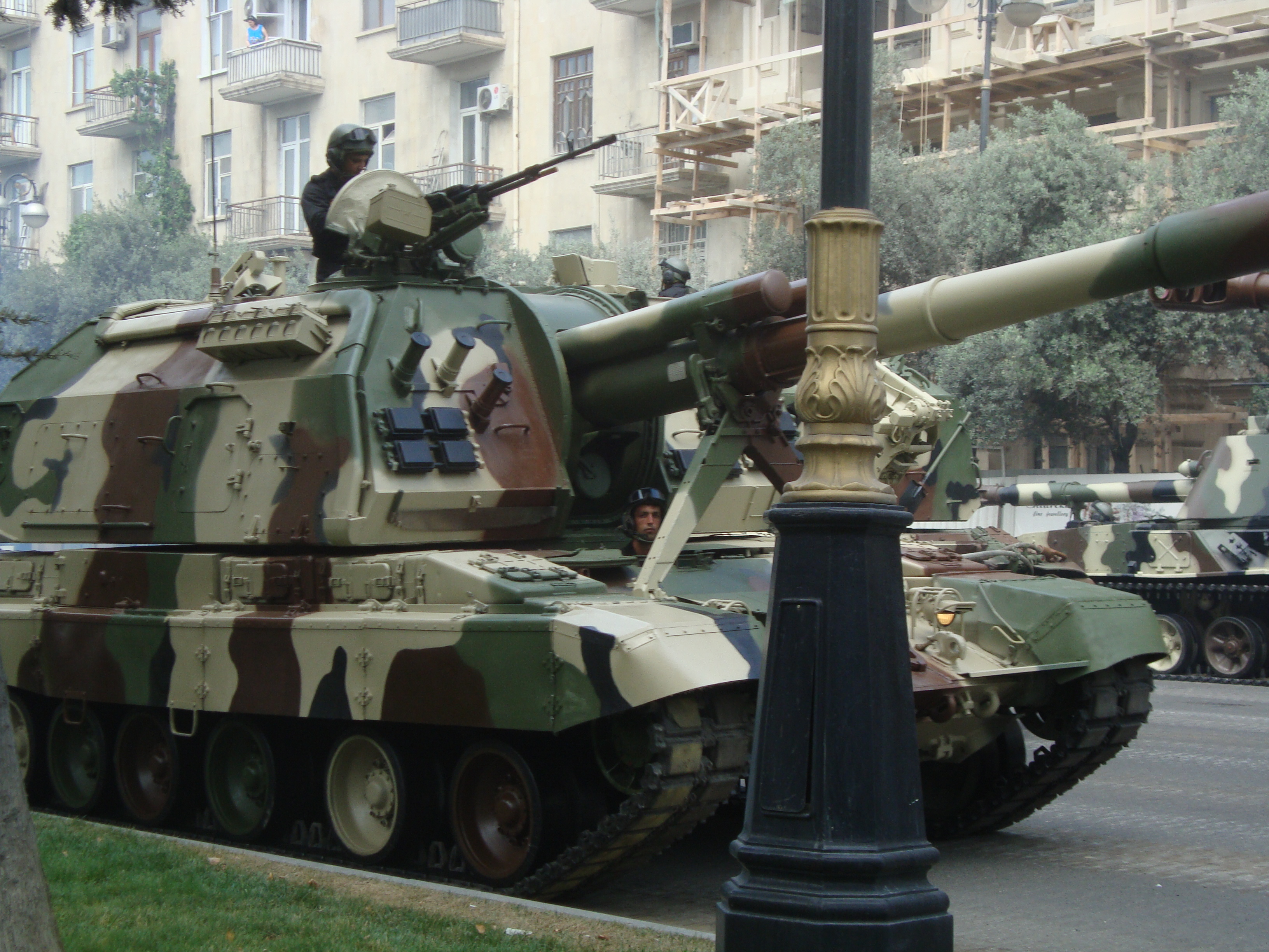 Azeri 2S19